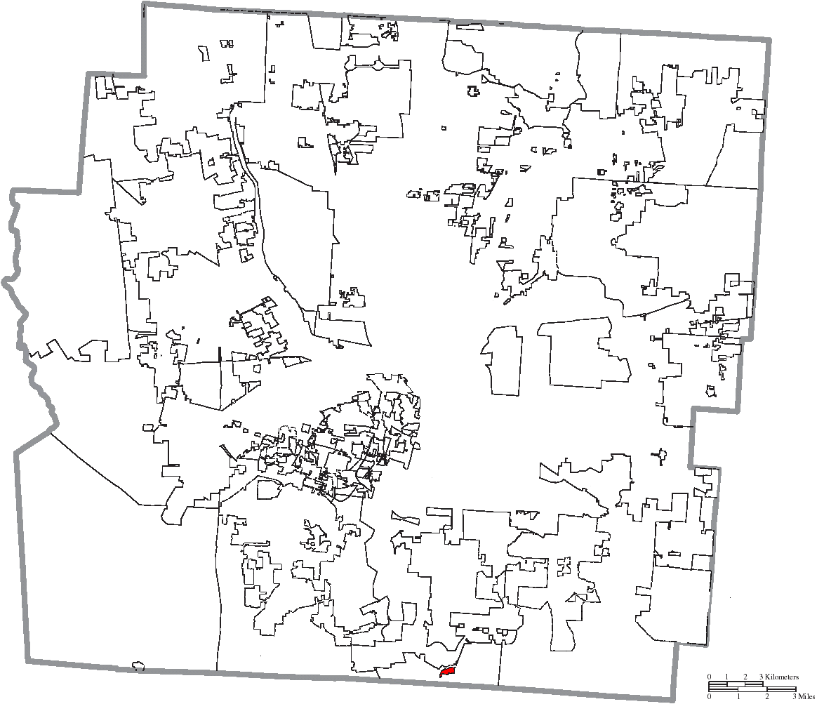 Map of the municipal and township boundaries of Franklin County, Ohio, United States, as of the 2000 census, with the location of the village of Lockbourne highlighted. Township borders are shown only in unincorporated areas in order to differentiate incorporated and unincorporated areas more clearly. Due to the extremely fractured nature of the county's municipal boundaries, details of boundaries and the identity of township islands may be inaccurate.